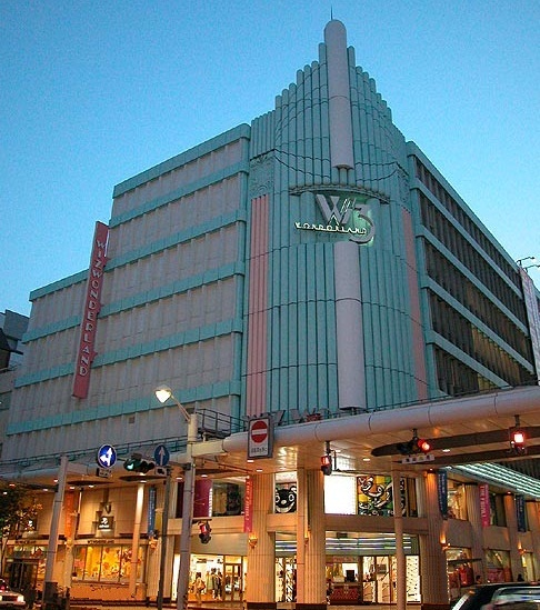 WIZ WONDERLAND